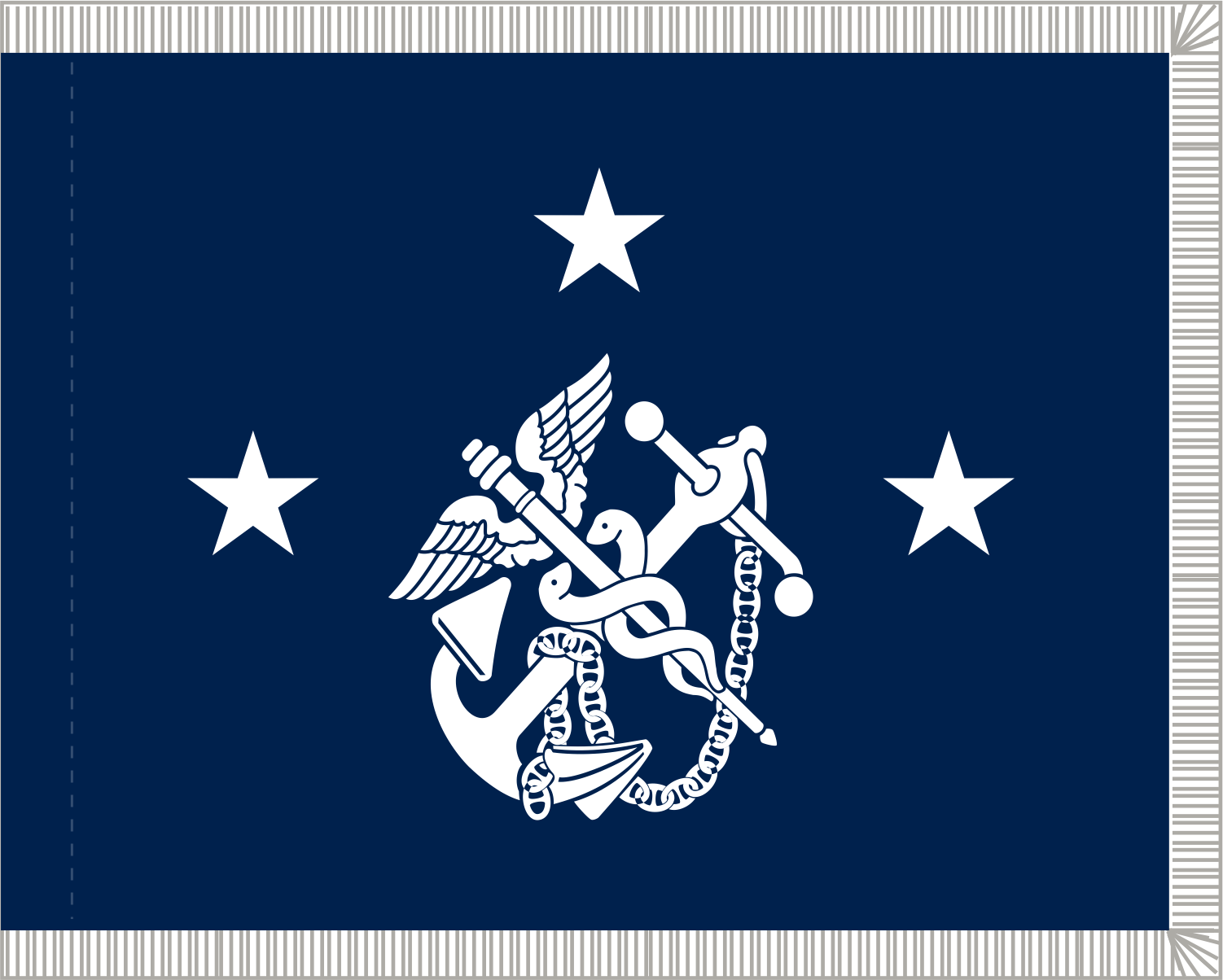 Flag of the Surgeon General, U.S. Public Health Service Officer Corps